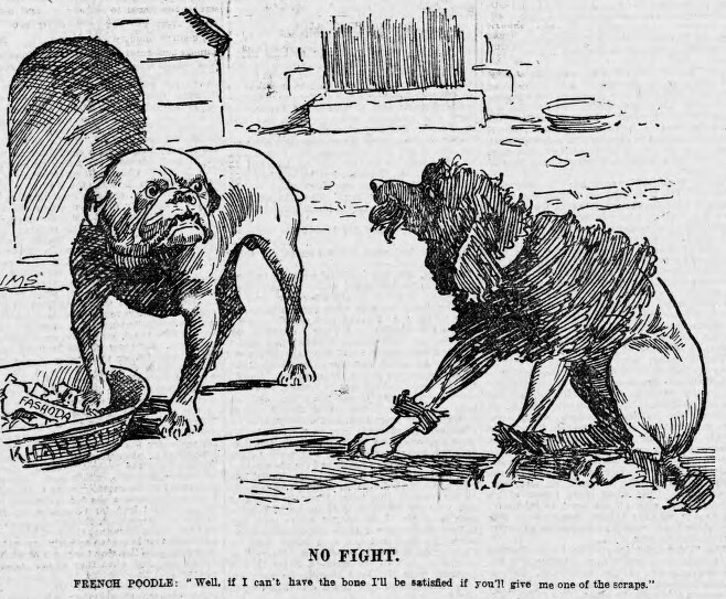 Political cartoon by JM Staniforth: A French poodle begs for scraps from a British bulldog, commentary on the Fashoda Incident (in present-day South Sudan).